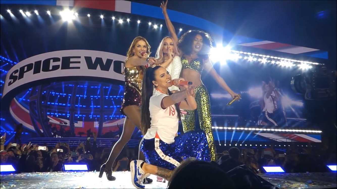 Spice Girls performing at Wembley Stadium, 14 June 2019